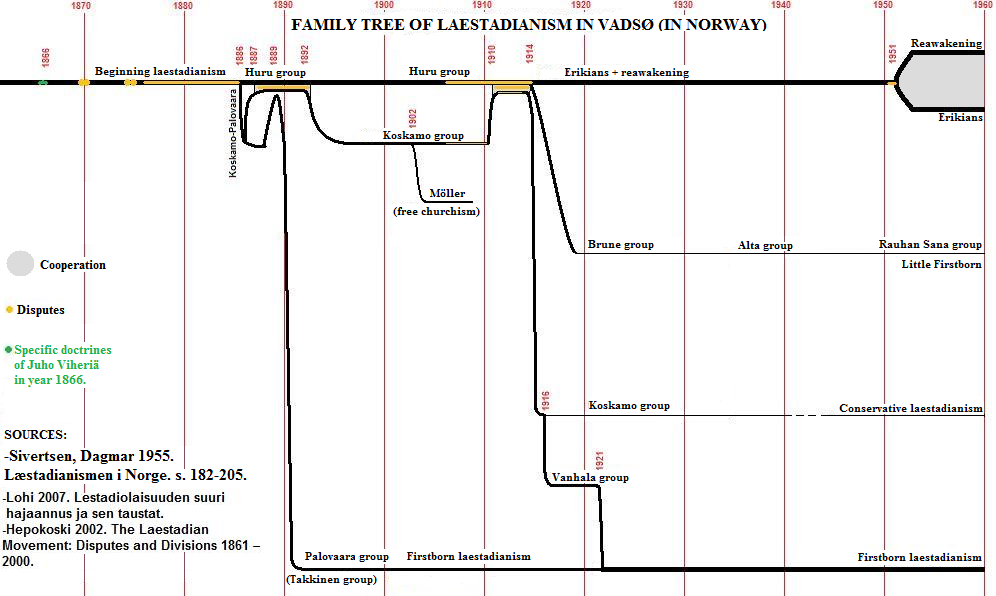 Family tree of laestadianism in Vadso in Norway in 1860-1960.